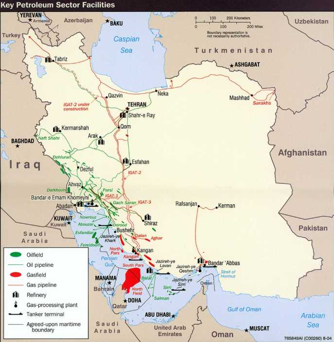 Key Petroleum Sector facilities (2004) Iran (Wall Map) 2004 "Iran Country Profile" Iran map with insets: Population Density, Ethnoreligious Distribution, Key Petroleum Sector Facilities, Southern Caspian Energy Prospects and Strait Of Hormuz (2.5M) (source: CIA map)